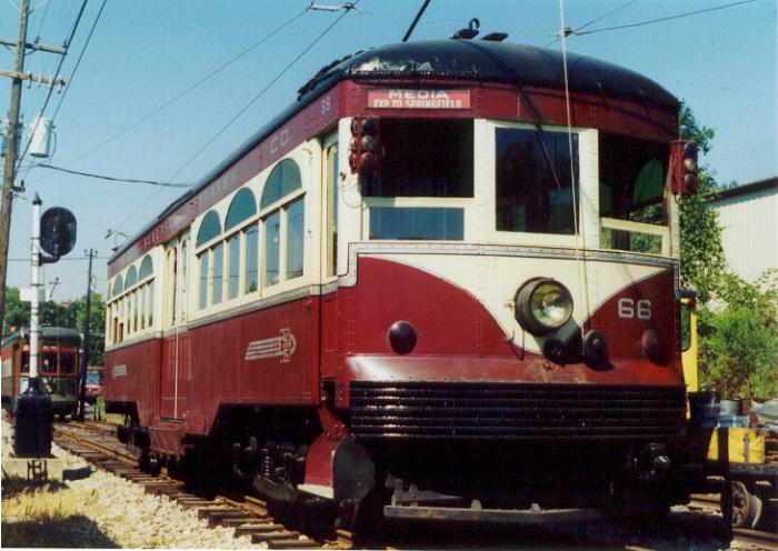 Philadelphia Suburban Transportation Company (Red Arrow) center-entrance car 66, in operation at the Pennsylvania Trolley Museum in Washington, Pennsylvania. Photo by Frank Hicks.